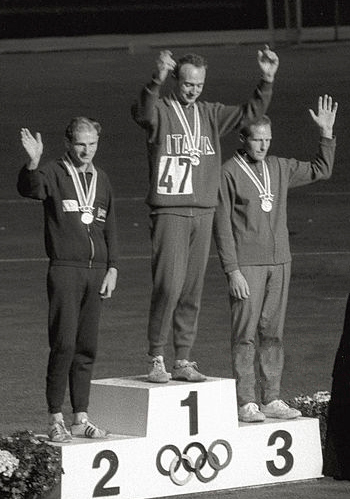 The Italian walker Abdon Pamich on the podium greeting with a wave along with British colleague Paul Nihill and Swedish colleague Ingvar Pettersson during the Tokyo Olympics. Tokyo, October 1964